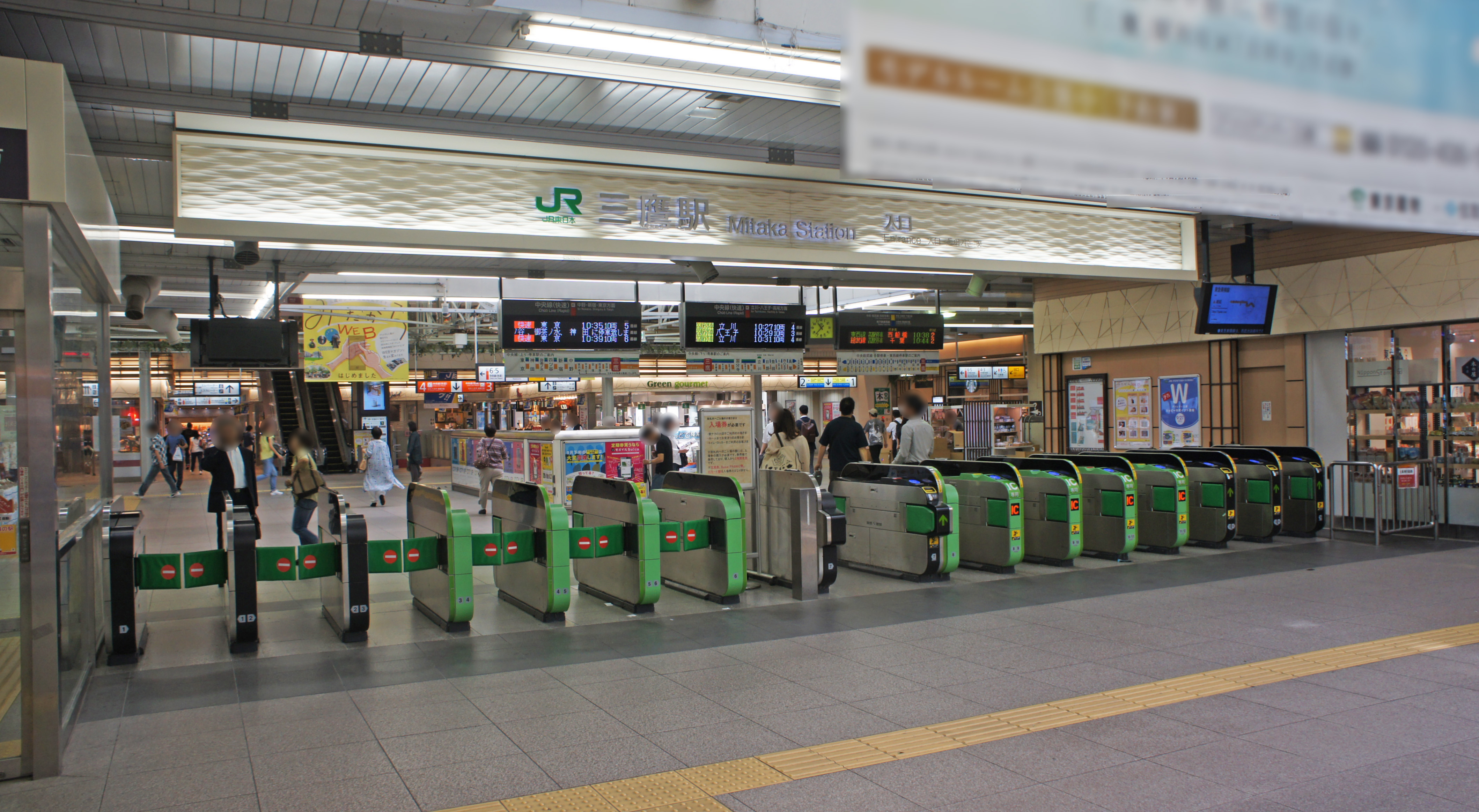 Front Gates of JR Chuo-Main-Line Mitaka Station